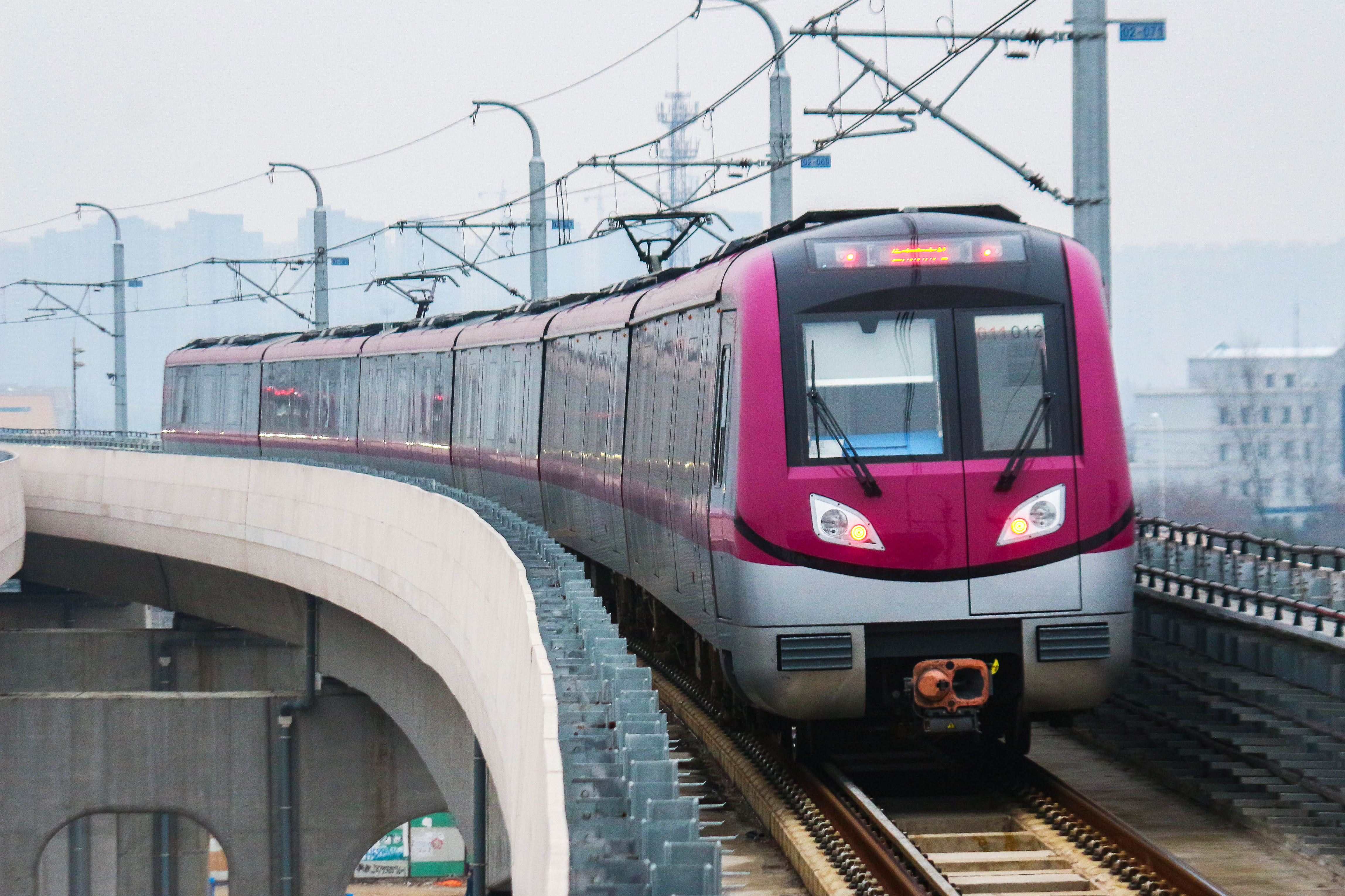 A train of Nanjing Metro Line S3 is leaving LIUCUN station